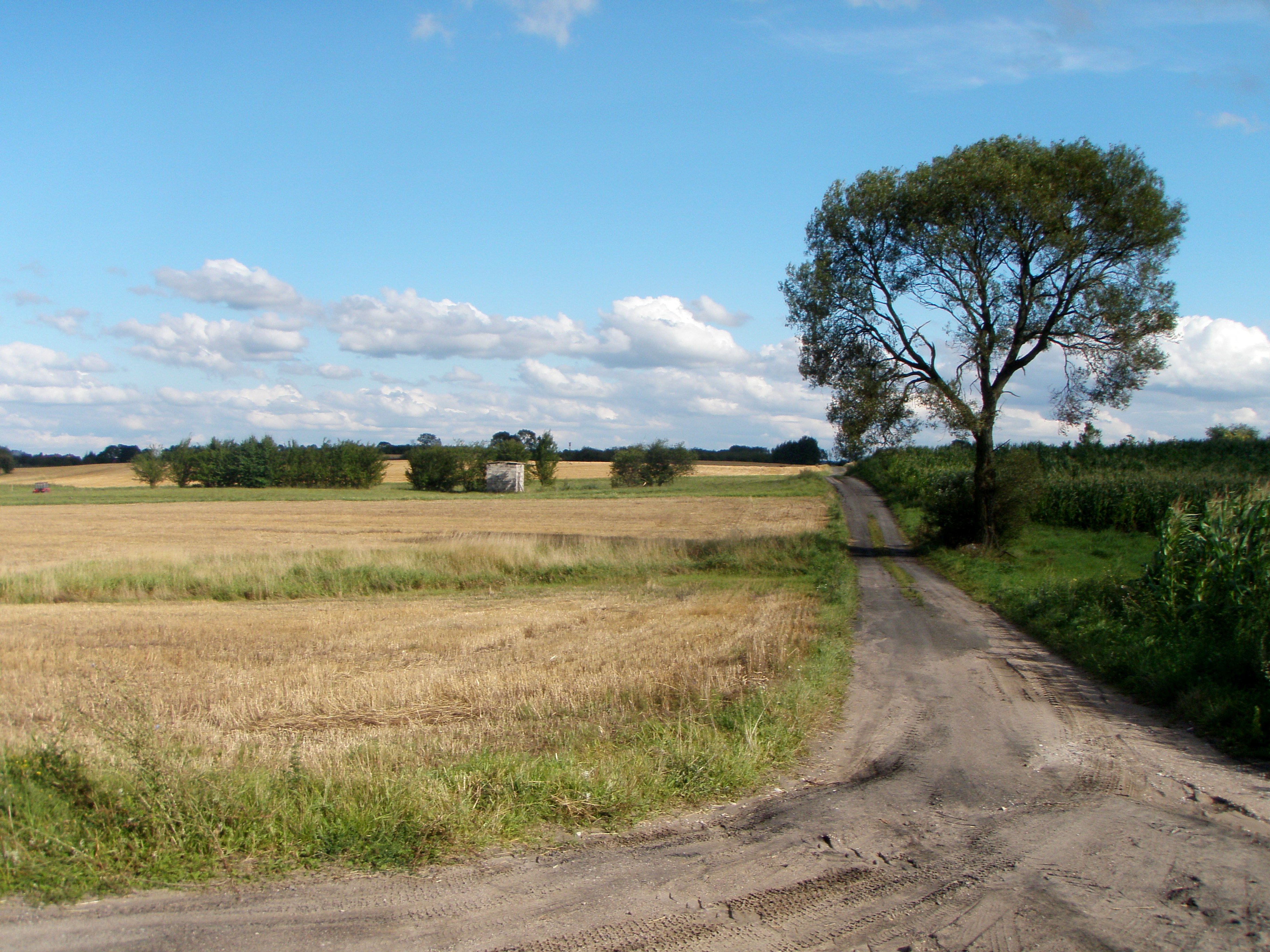 Plain in Augustów (Poland).